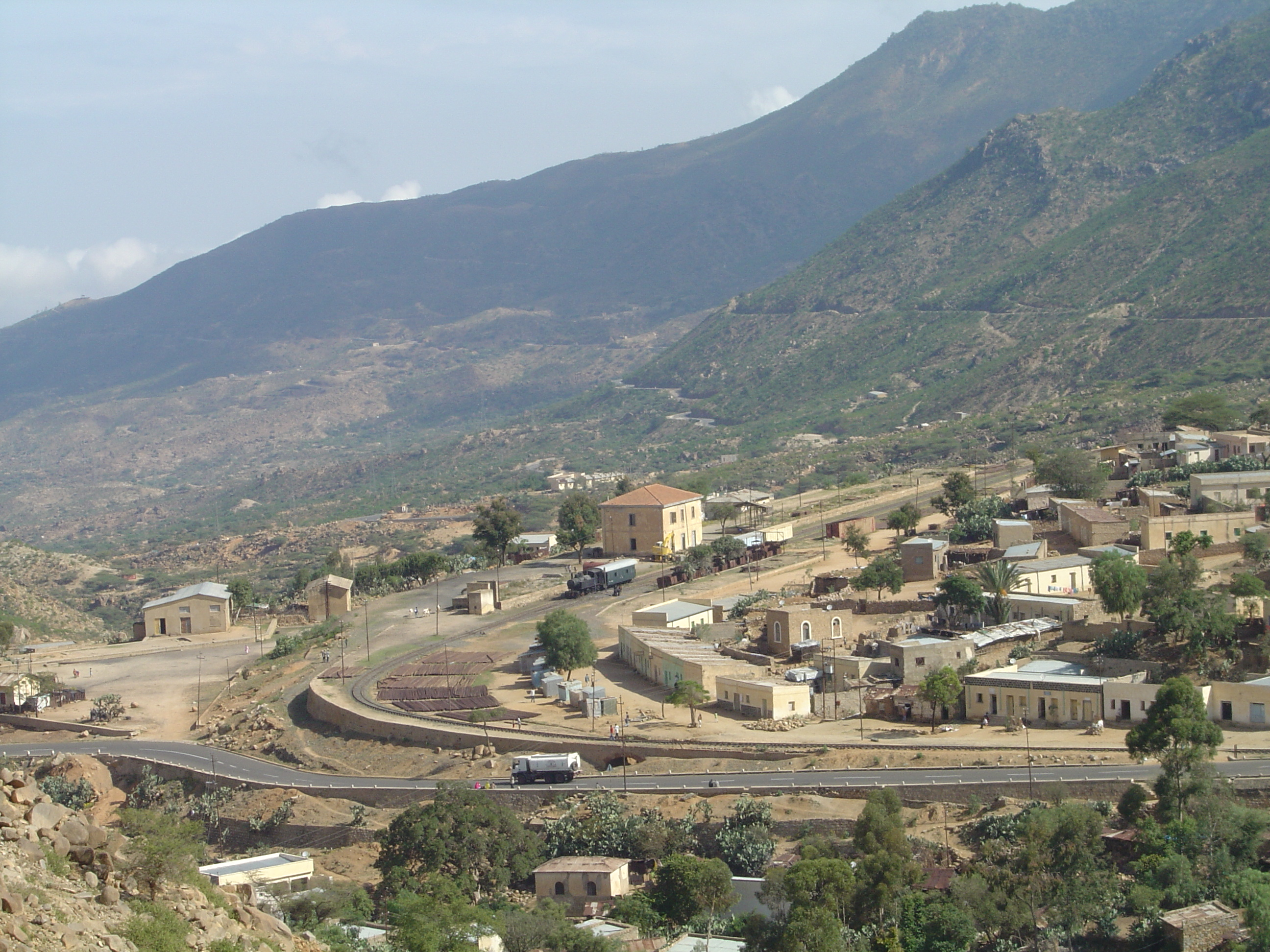 Nefasit railway station, Eritrean Railway